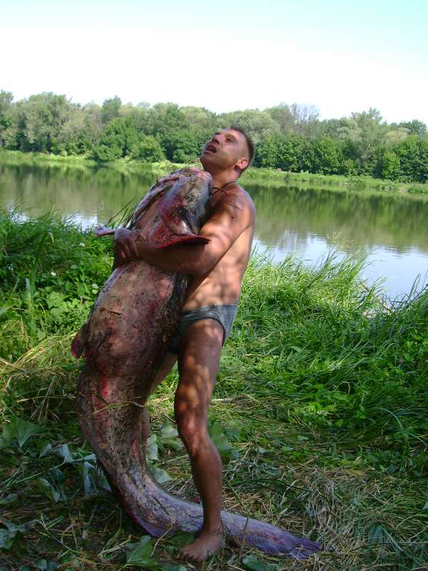 Som